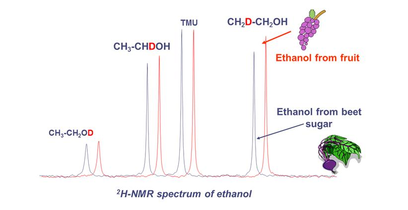 Figure 8 - 2H-NMR spectrum of ethanol